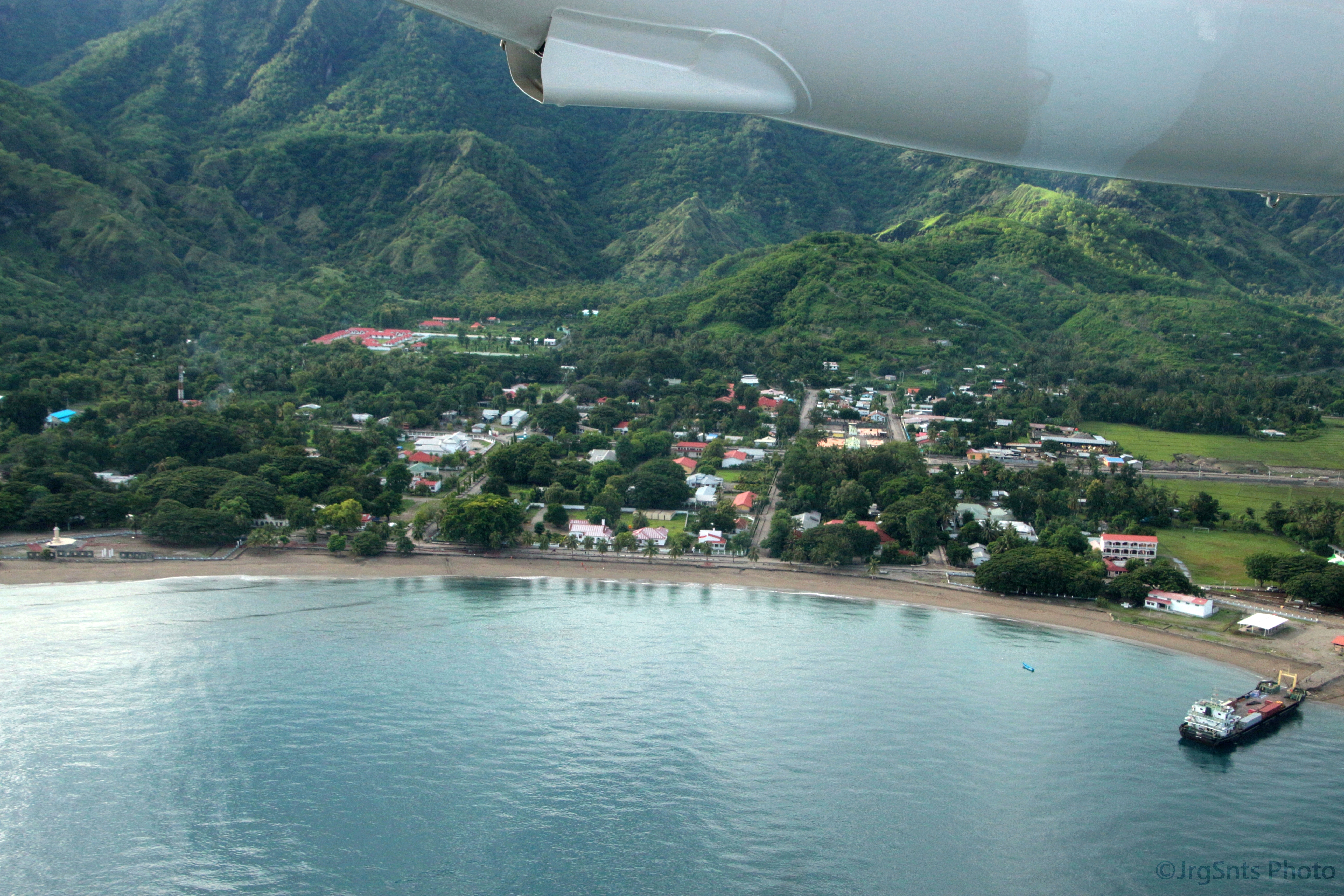 Aerial view of Oecusse (East Timor). Photo published in "Timor - a ilha feiticeira".